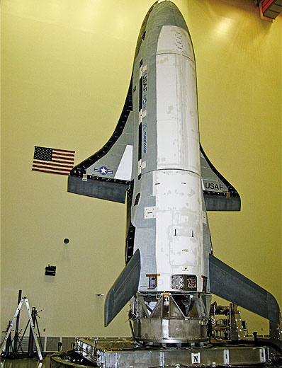 X-37B orbital test vehicle (OTV-1)